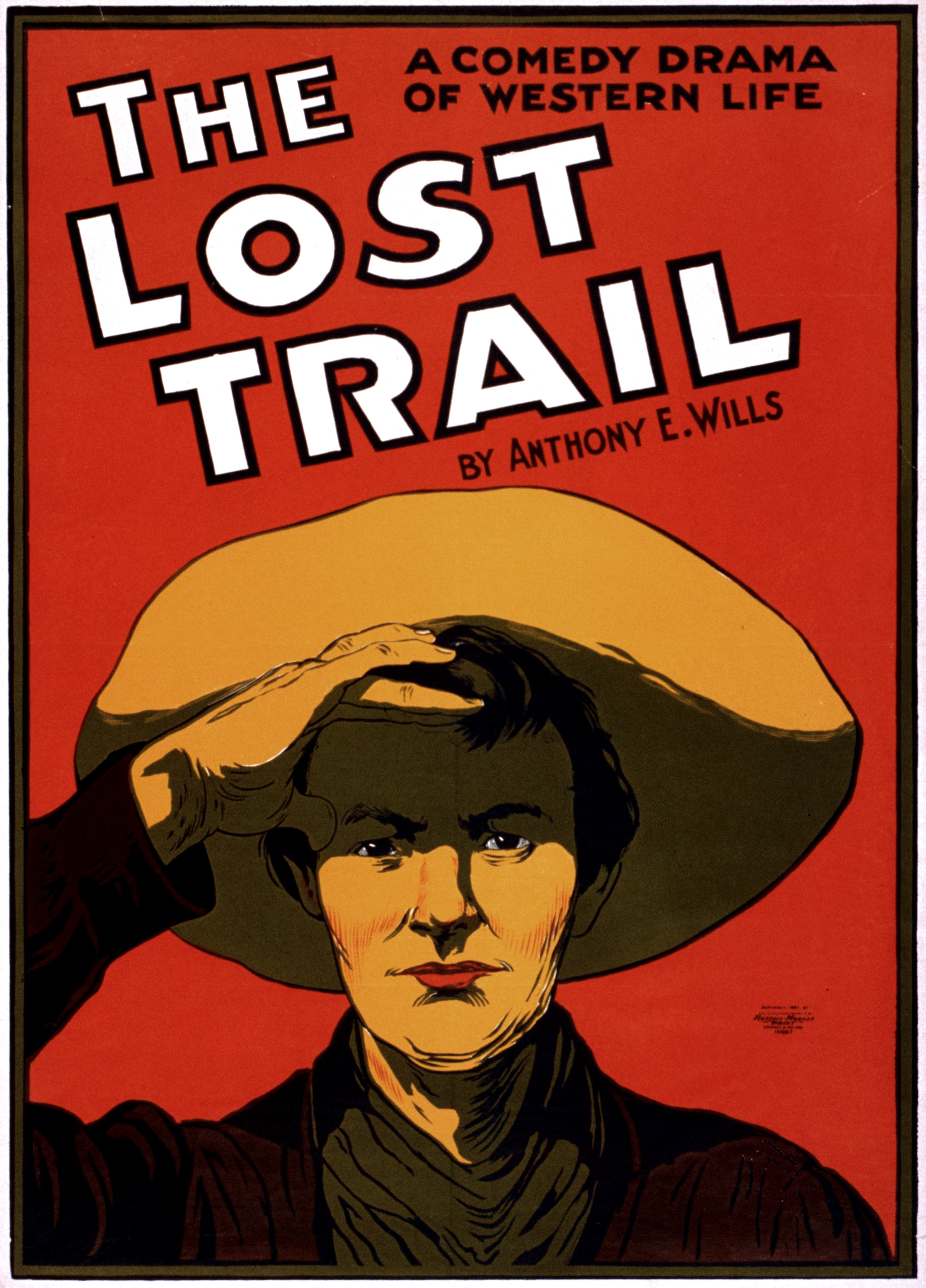 The lost trail, a comedy drama of western life, by Anthony E. Wills. Promotional poster for the play.